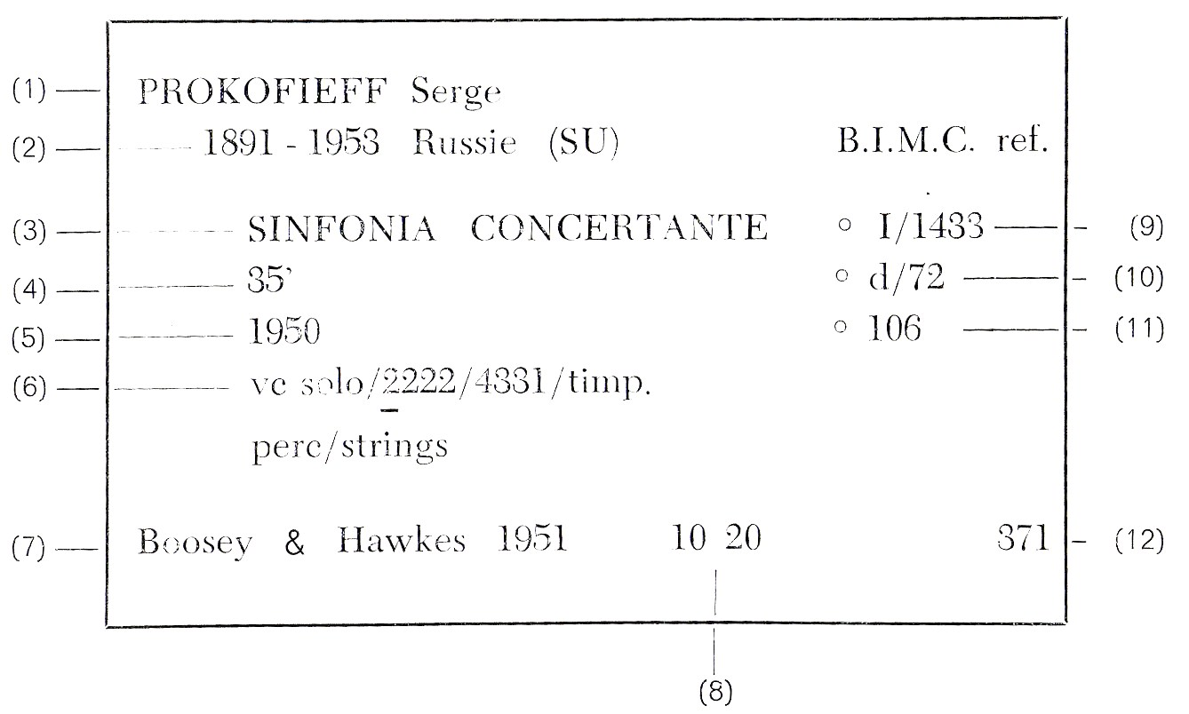 Annotated example of a B.I.M.C. index card (1) NAME and first name of the composer (2) Year and place of birth (Nationality) (3) TITLE of the work (4) Length (5) Year of composition (6) Instrumentation (nomenclatures) (7) Publisher and year of publication (or Manuscript indication) (8)(9)(12) internal references (10) reference of a deposited recording (11) reference of the biographical file